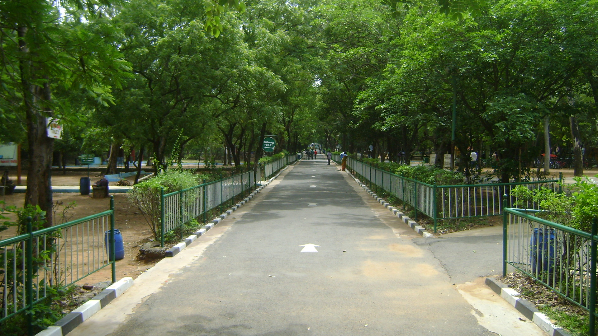 Main walkway near the entrance at Vandalur Zoo, taken on 18 August 2012